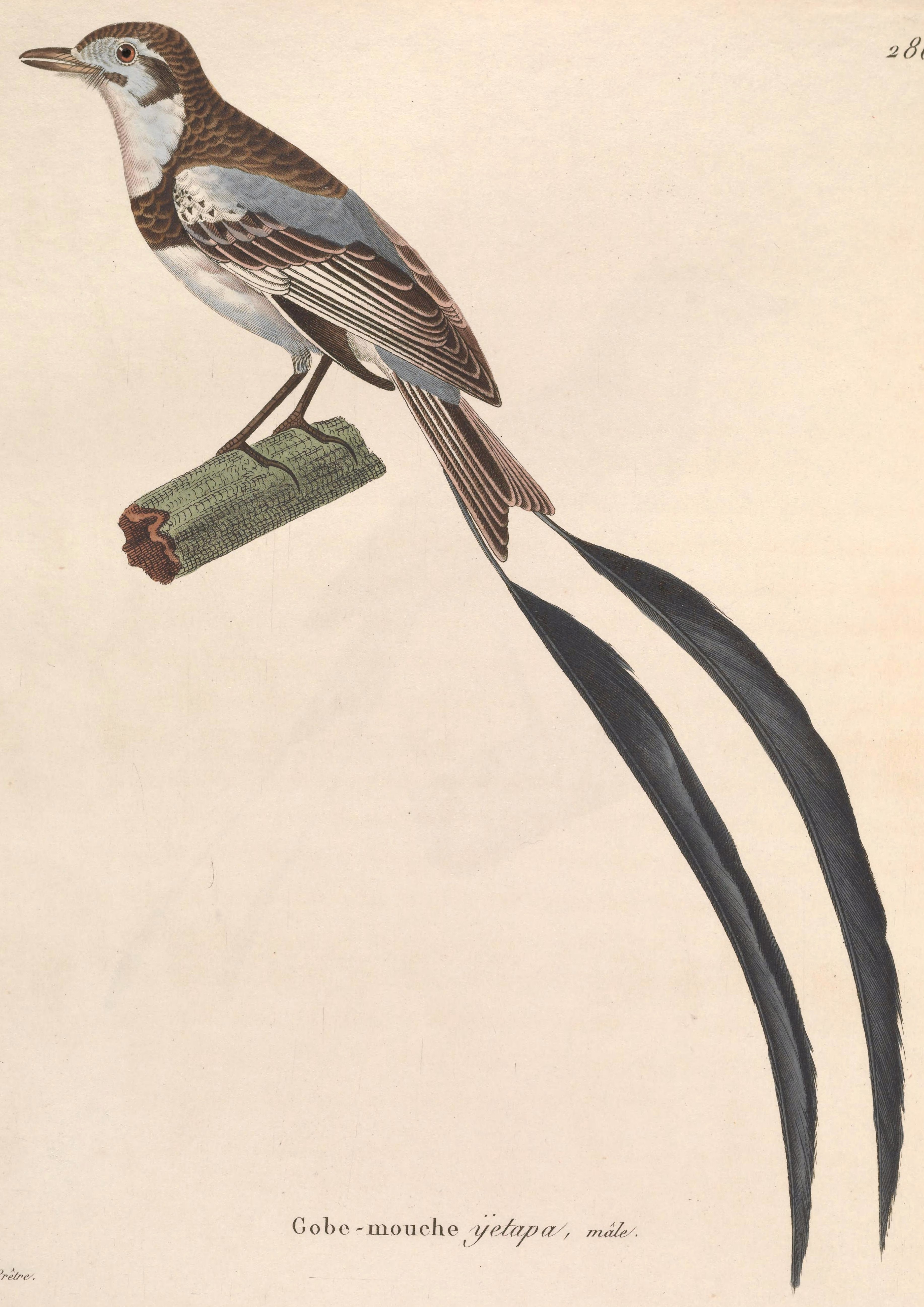 « Muscicapa psalura » = Alectrurus risora (Strange-tailed Tyrant) - male